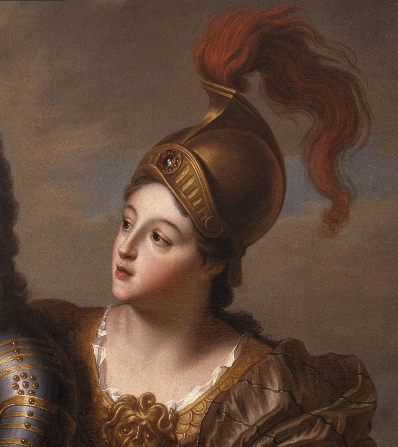 Madame de Parabère who poses as Minerva, goddess of Wisdom